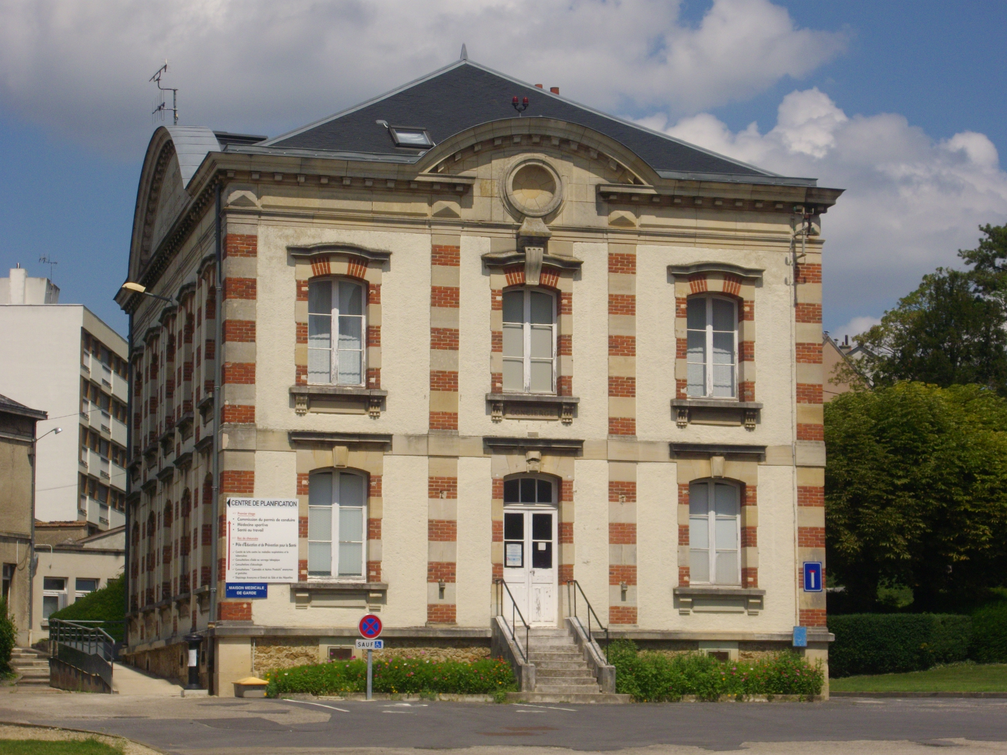 Auban-Moët hospital in Épernay (Marne, France)